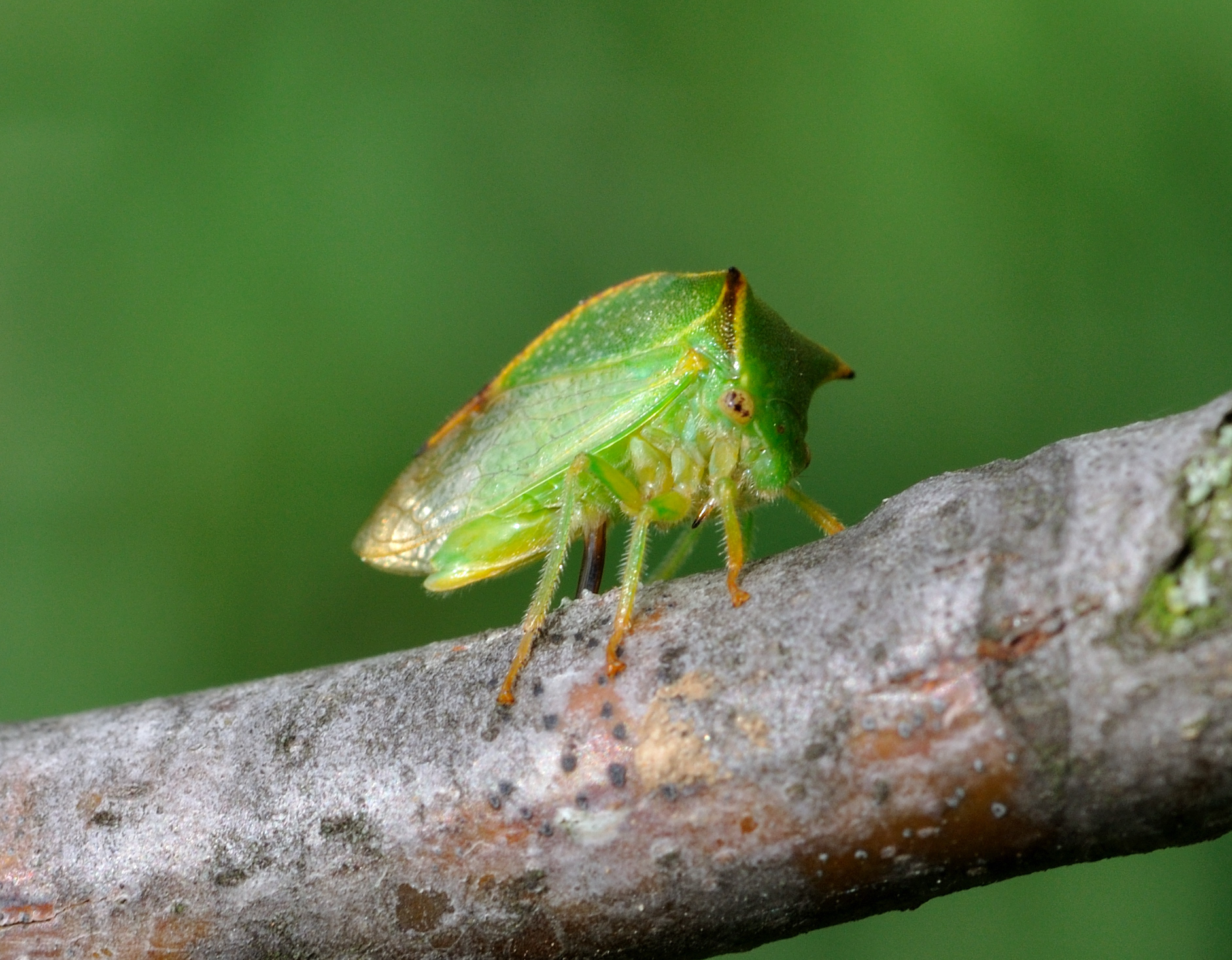 Female Buffalo Treehopper (Stictocephala bisonia) boring a hole into a branch for laying eggs in Oberursel, Germany.